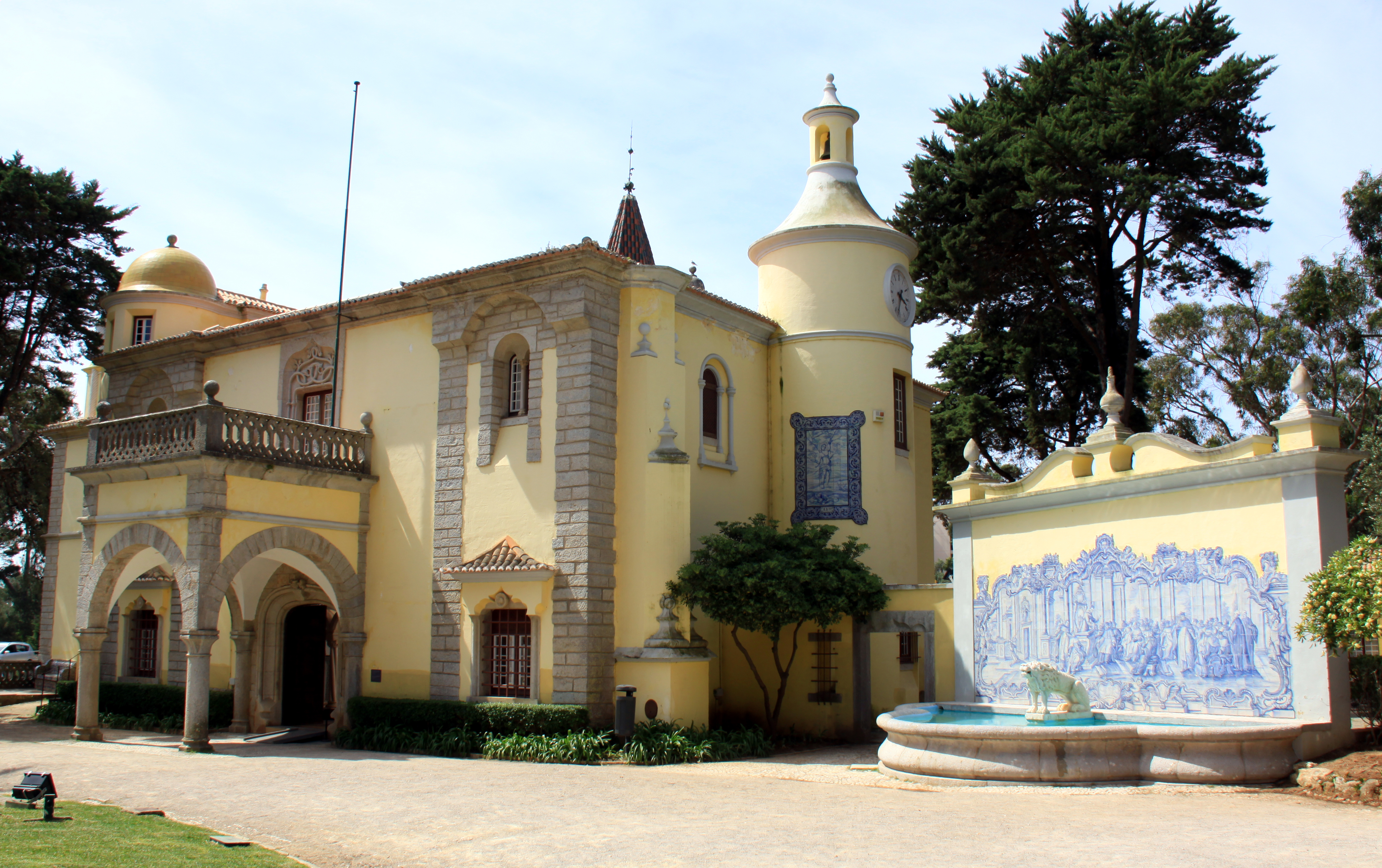 Cascais Museum Conde Castro Guimaraes